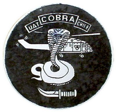 Cobra uat pic